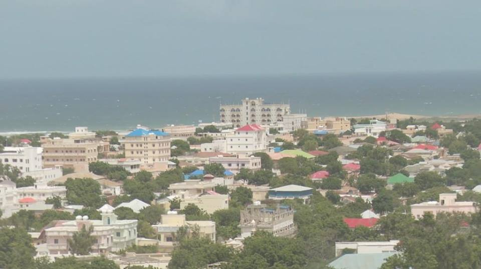 Beach view